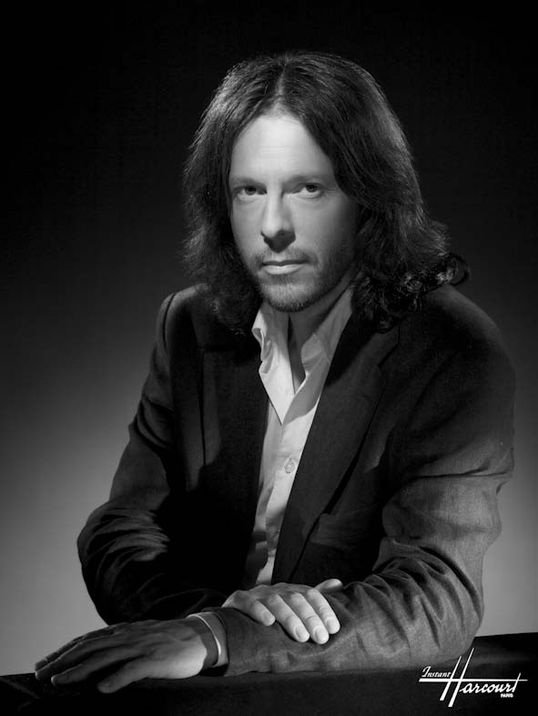 Frank Braley photographed by Studio Harcourt Paris